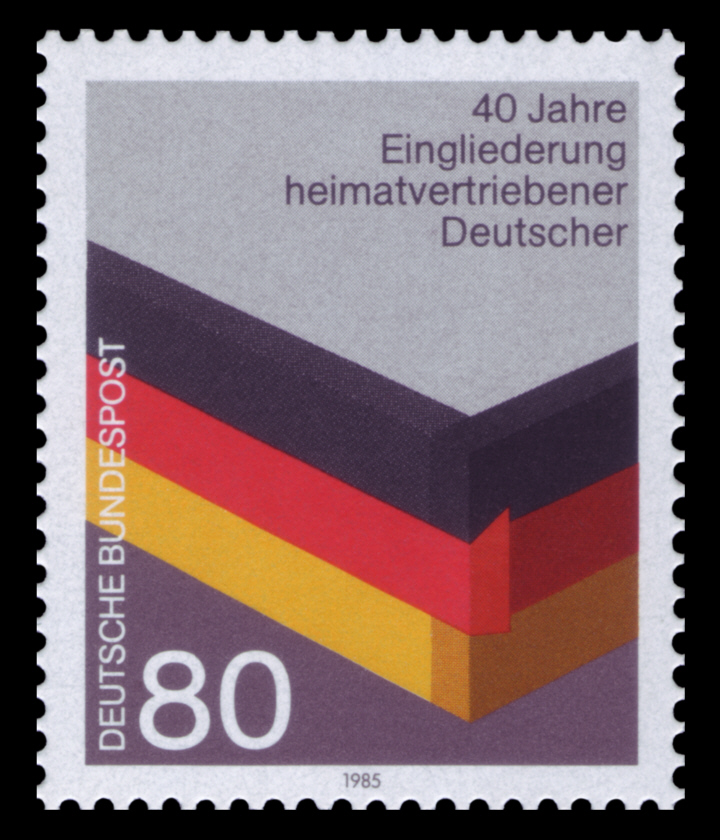 40 years of integration expelled German